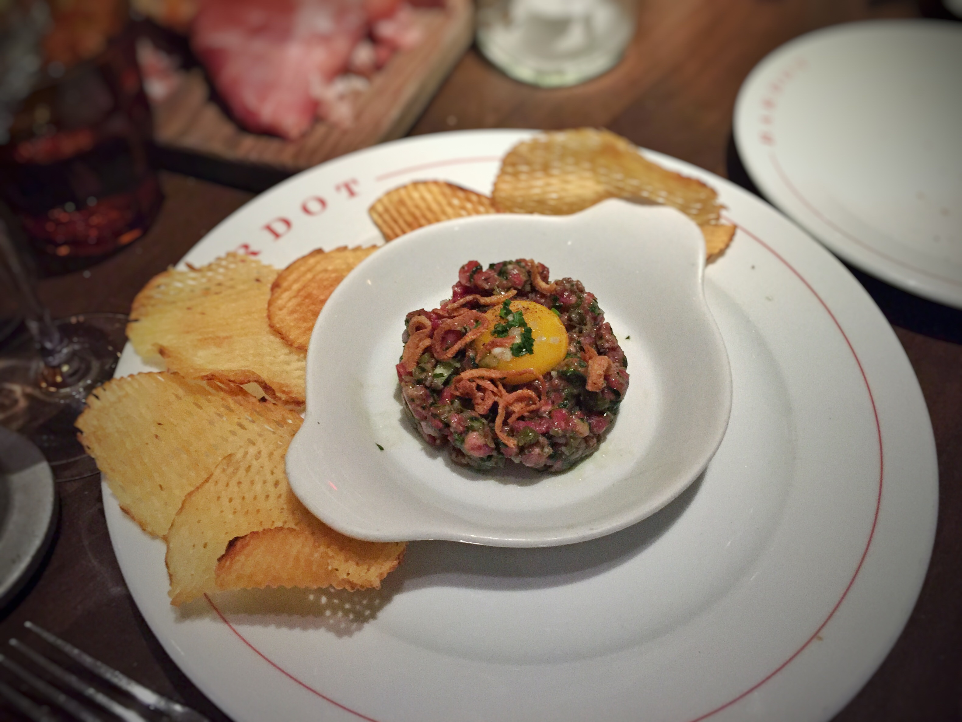 Prime steak tartare, sauce verte, egg yolk, gaufrette potatoes - Bardot Brasserie, Las Vegas NV